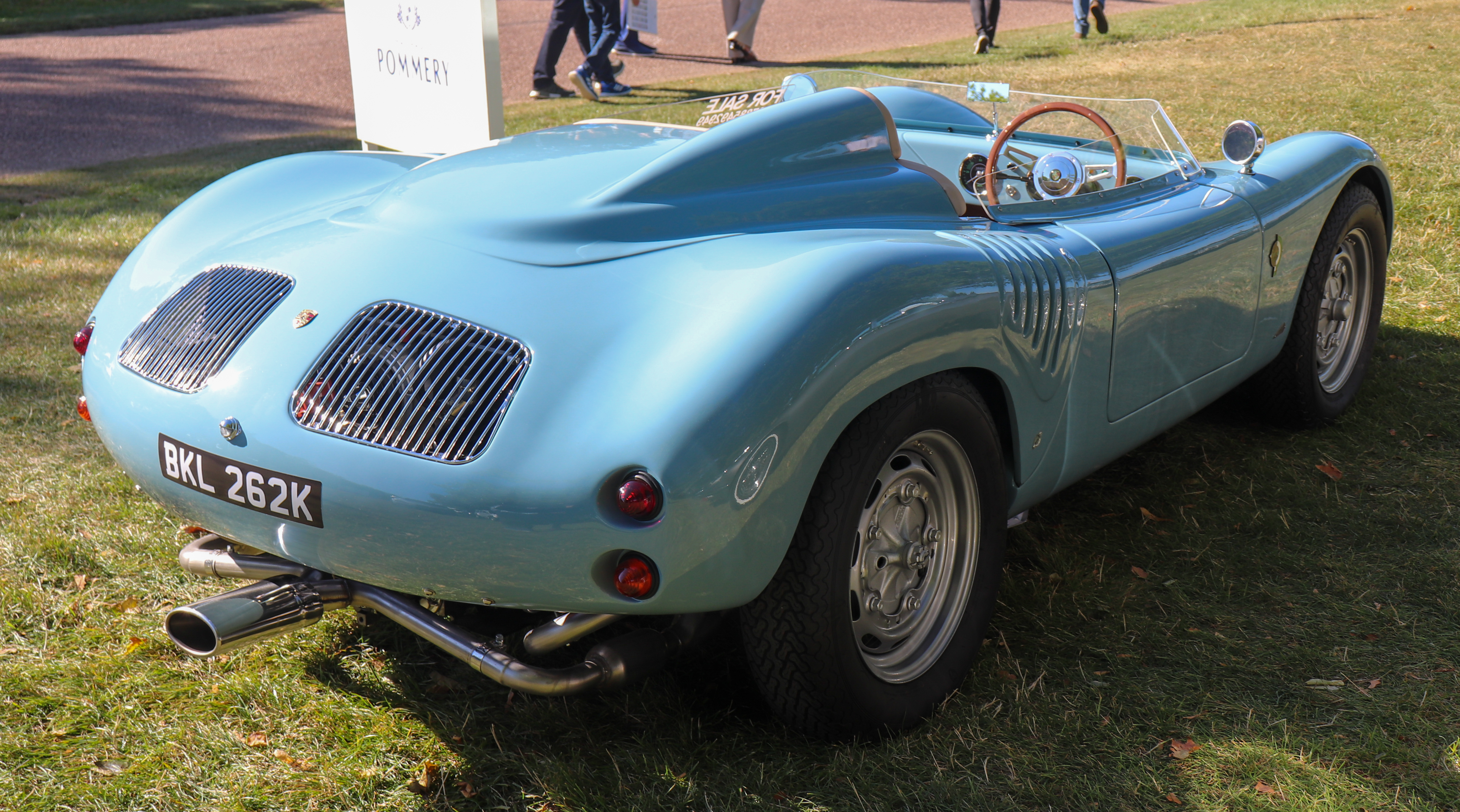 1971 (Donor) Spyders Inc 718 RSK Reproduction 1.6 Rear Taken at the Salon Privé Concours d'Elegance Classic Car Motor Show 2019, Blenheim Palace